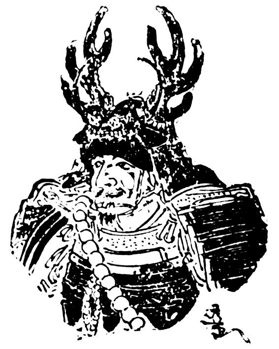 Honda Tadakatsu portrait